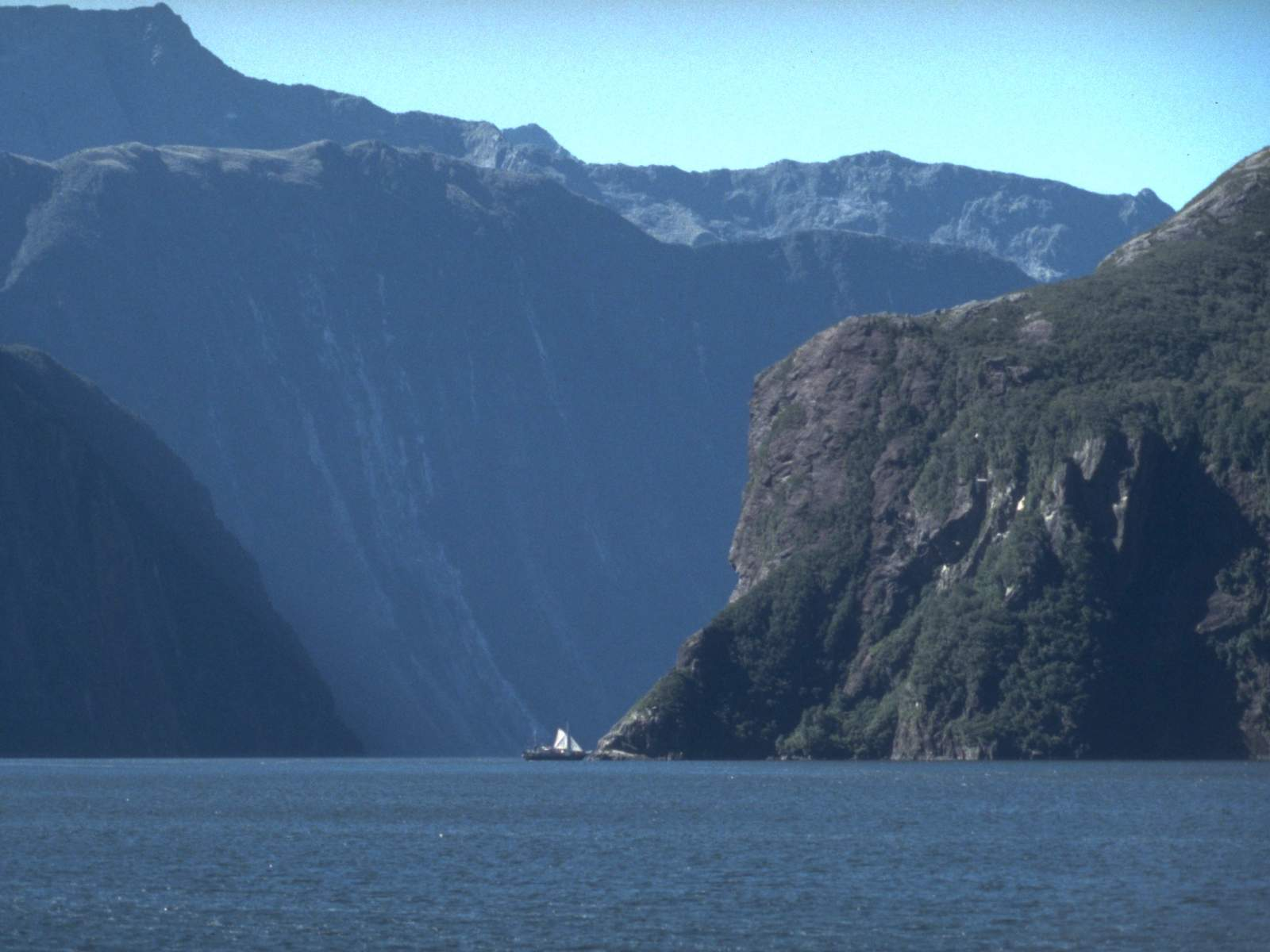 Doubtful Sould. Note the sailing ship for size reference.